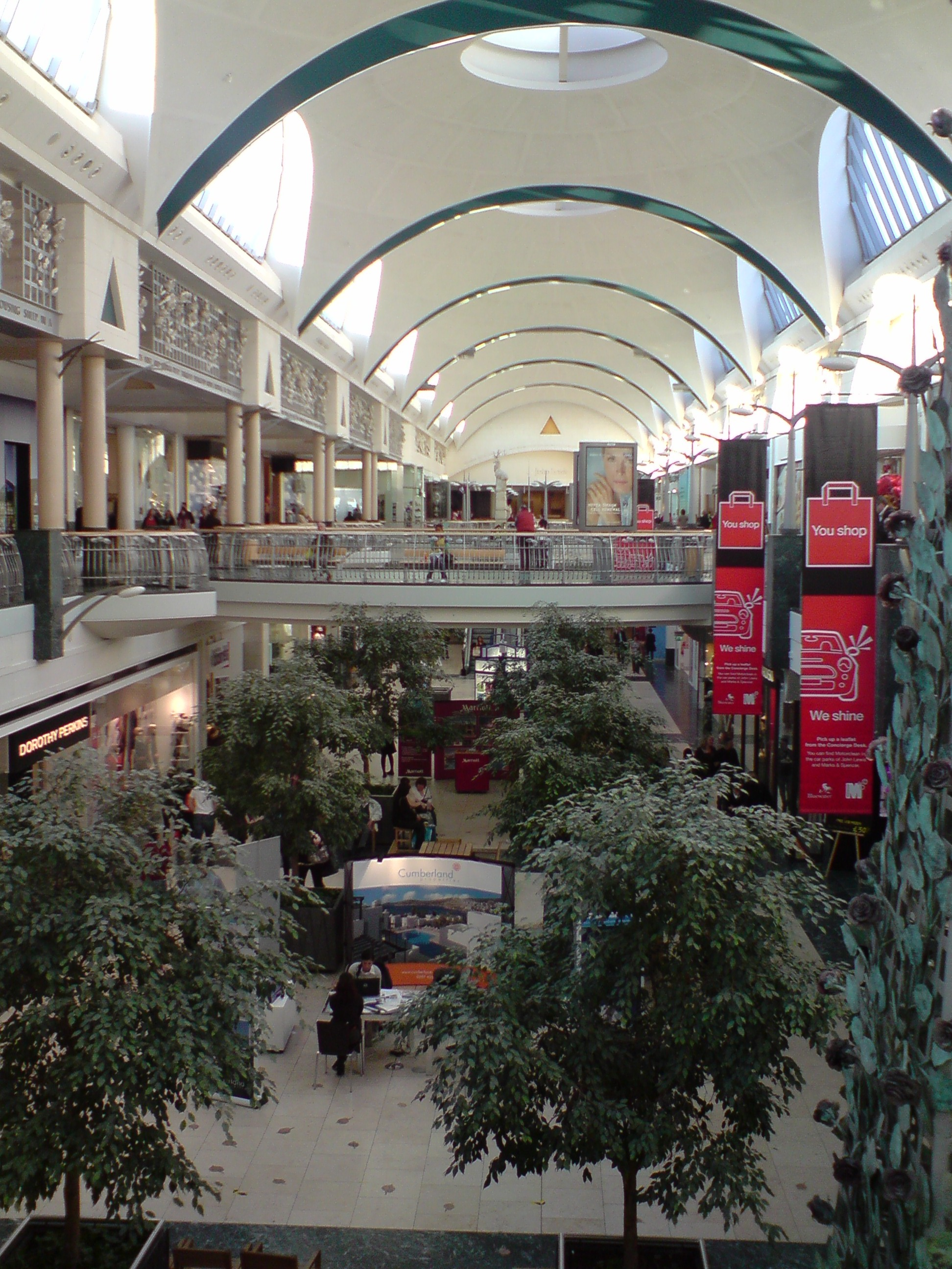 Shot from the upper level of the Rose Gallery @ Bluewater